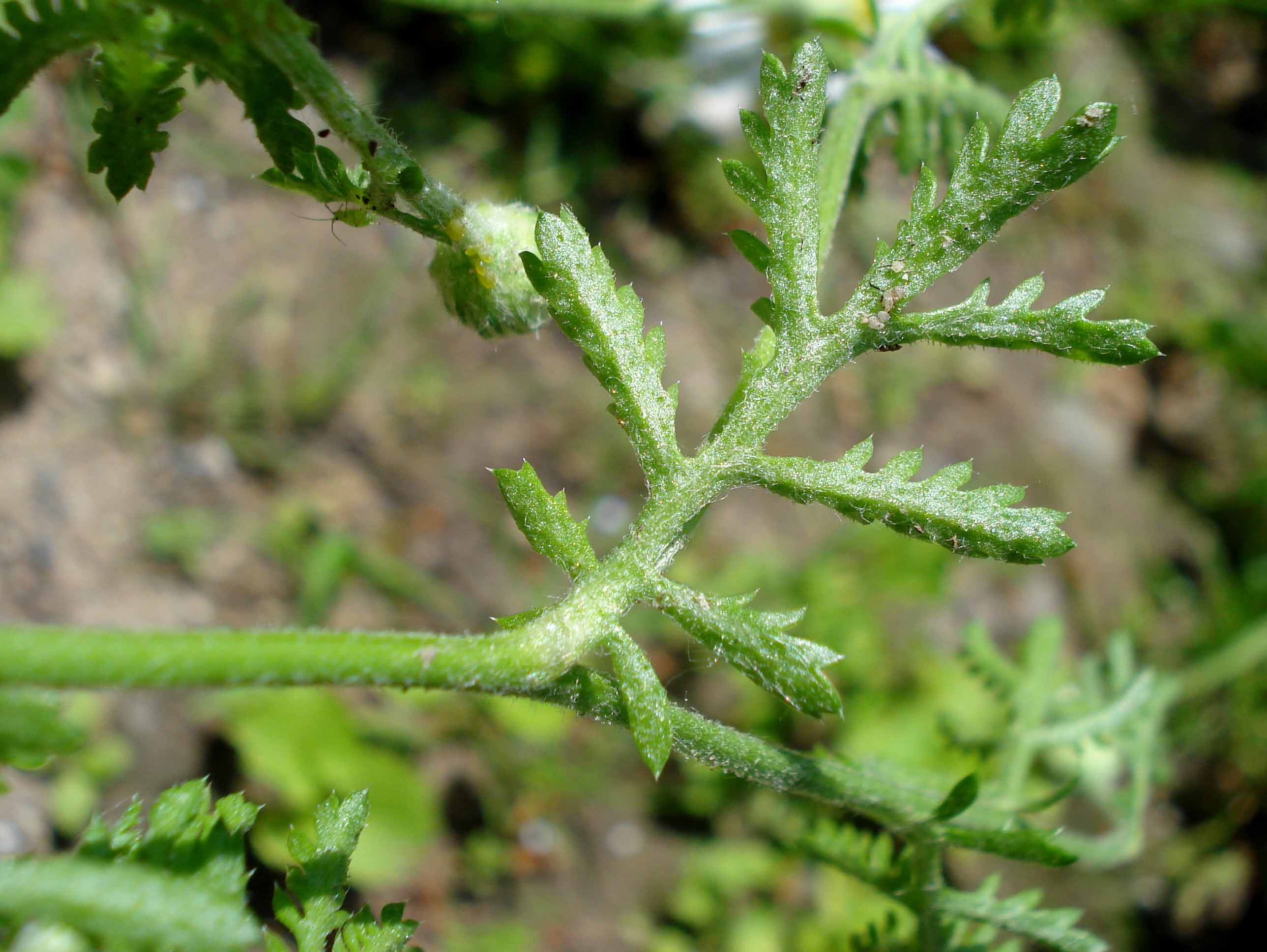 Anthemis arvensis (Unterfranken, Germany)